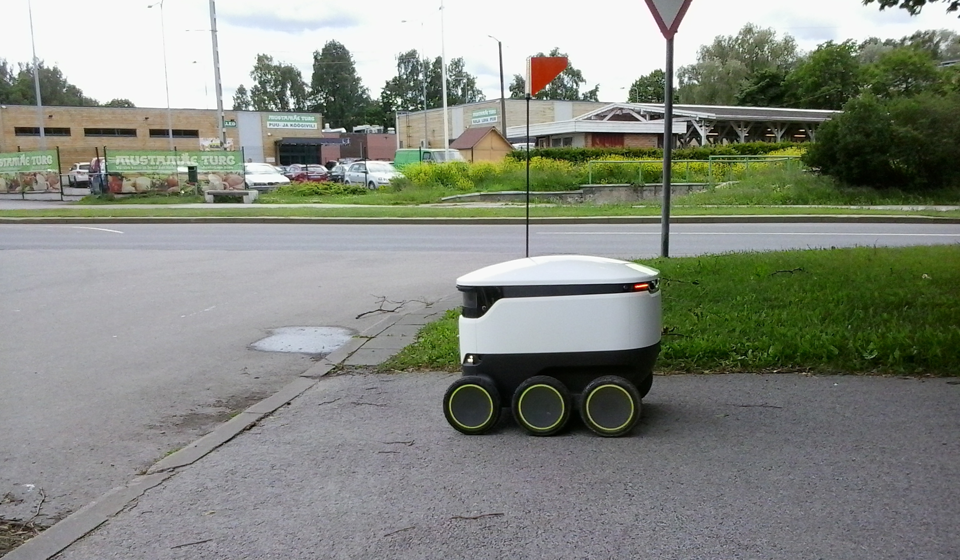 Delivery rover in Tallinn (side view)